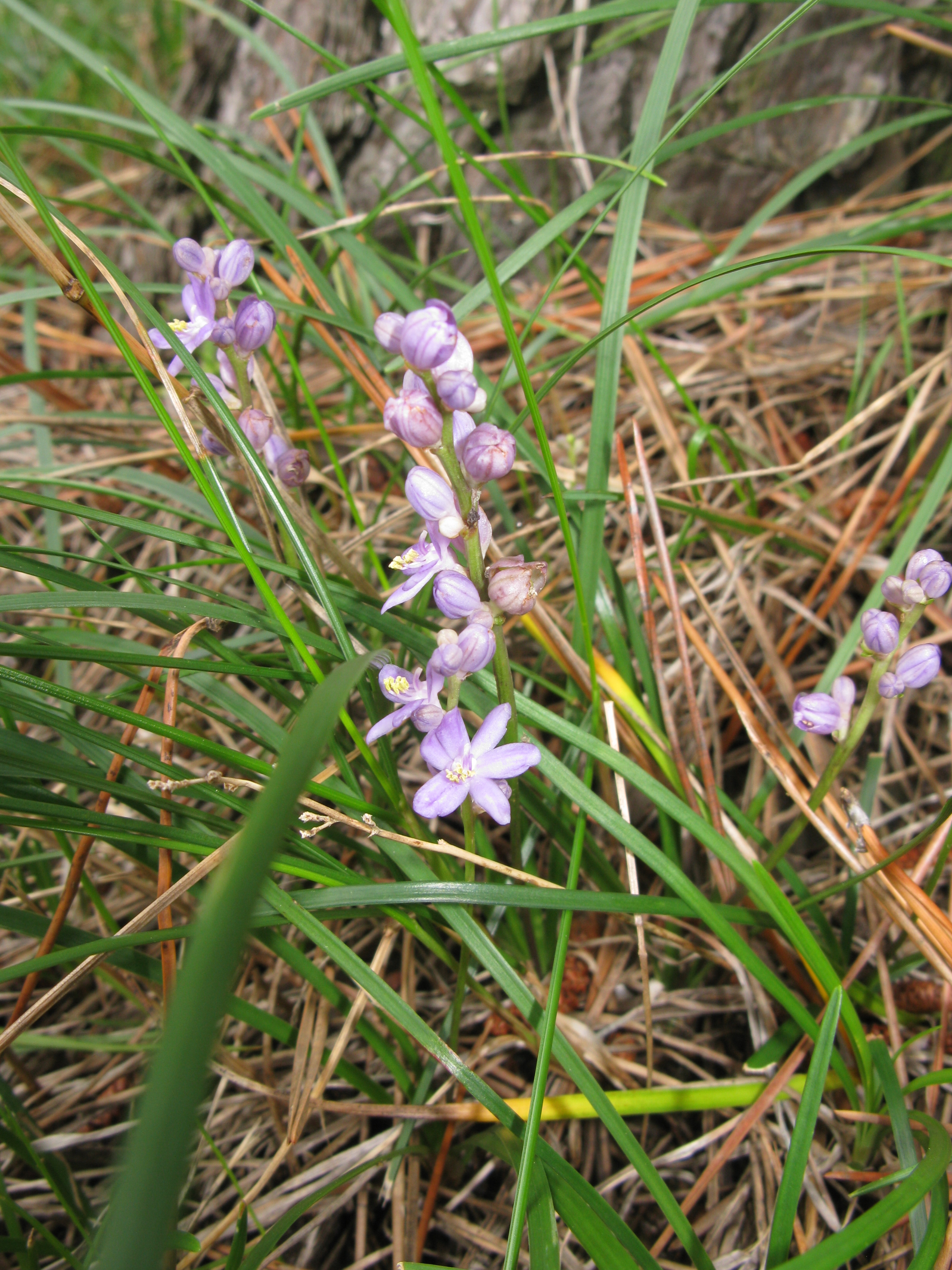 Liriope minor, Shōnai area, Yamagata pref., Japan